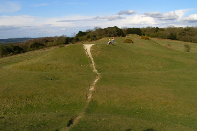 The Devil's Humps barrows on Bow Hill Looking along the chalk ridge towards the summit of Bow Hill from the most westerly barrow in the linear group known as the "Devil's Humps" or "Kings' Graves". The barrow underfoot and the main one in this photograph are classified as bell barrows, since the mound is separated from the ditch by a berm. The underlying chalk is exposed here by the well-worn path from one barrow to the next.